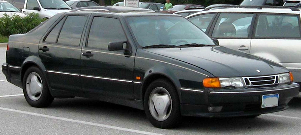 1992-1998 Saab 9000 photographed in USA.